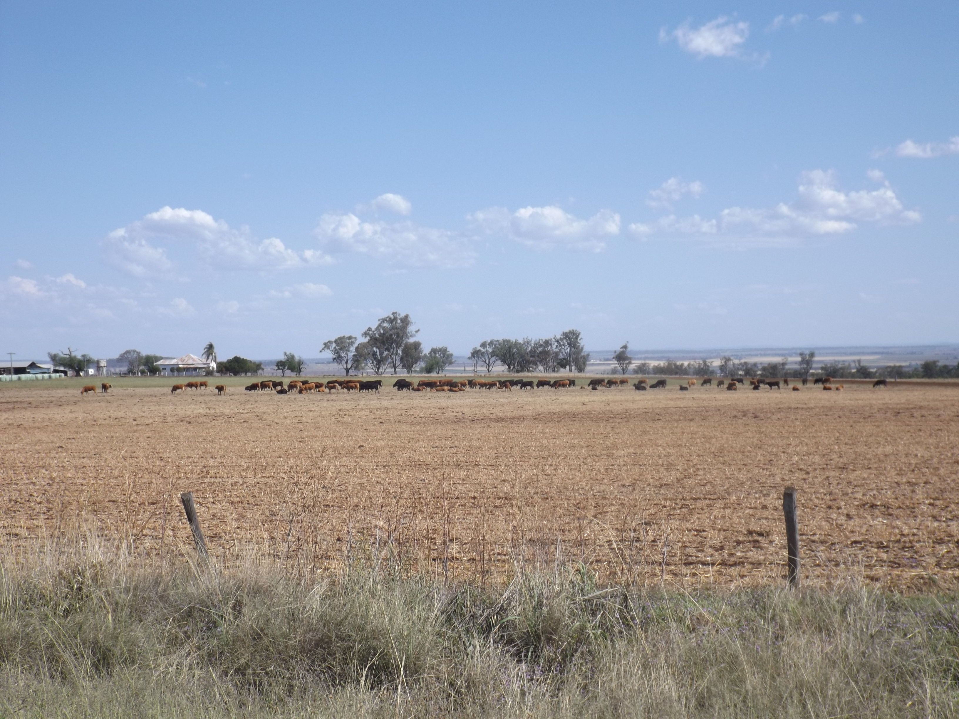 Photo of cattle and paddocks from Greenmount Hirstvale Road at East Greenmount, Queensland, Australia.